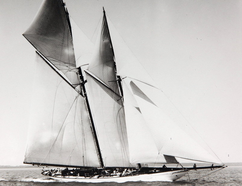 German sailing / racing schooner "Germania", launched in 1908 in Kiel/D; shot of 1908